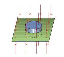 cilindro imaginário